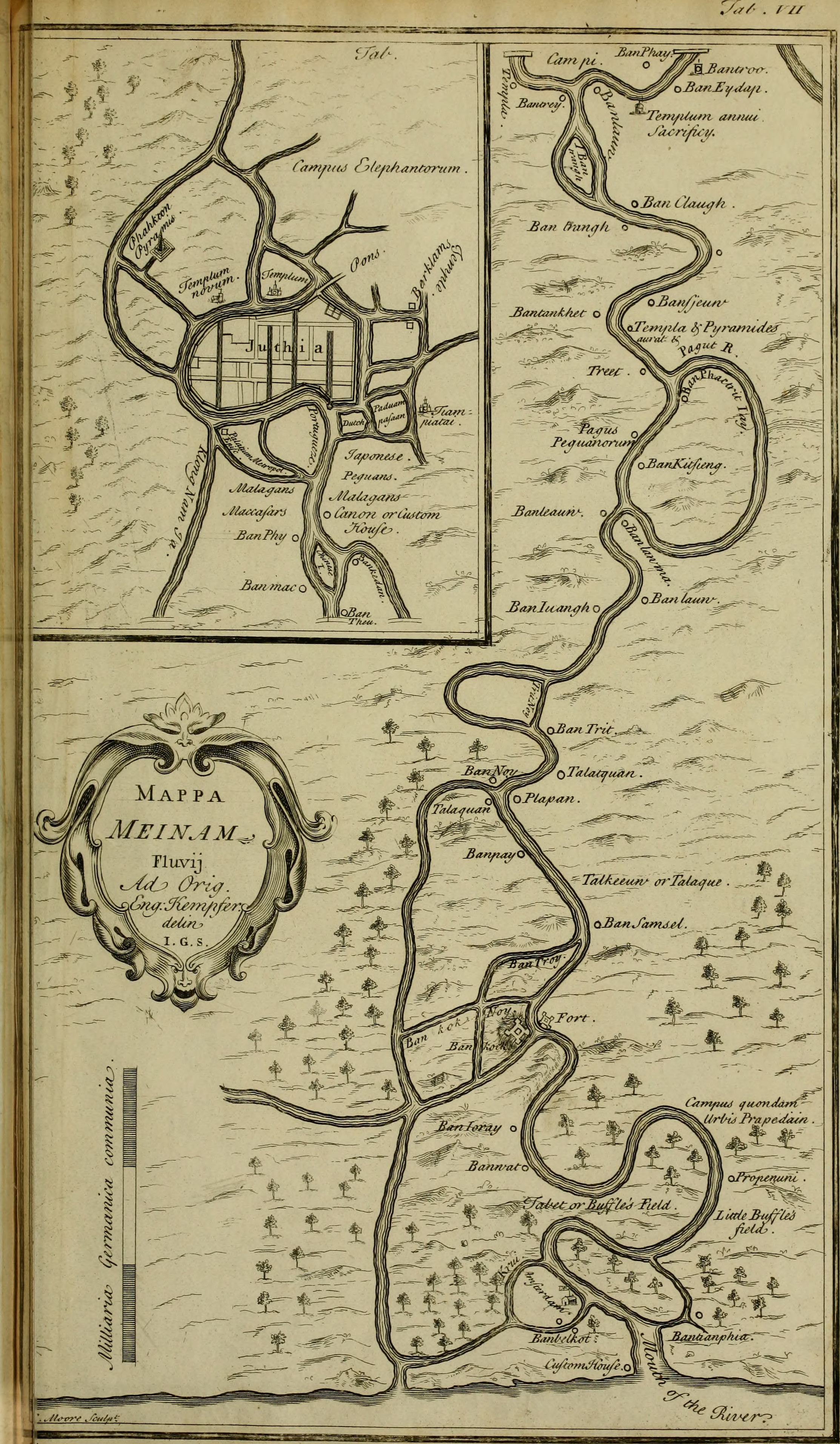 Title: The history of Japan, giving an account of the ancient and present state and government of that empire : of its temples, palaces, castles and other buildings, of its metals, minerals, trees, plants, animals, birds and fishes, of the chronology and succession of the emperors, ecclesiastical and secular, of the original descent, religions, customs, and manufactures of the natives, and of their trade and commerce with the Dutch and